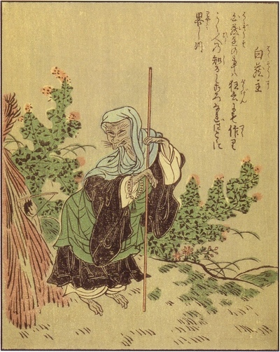 Hakuzōsu (白蔵主) from the Ehon Hyaku monogatari (絵本百物語)